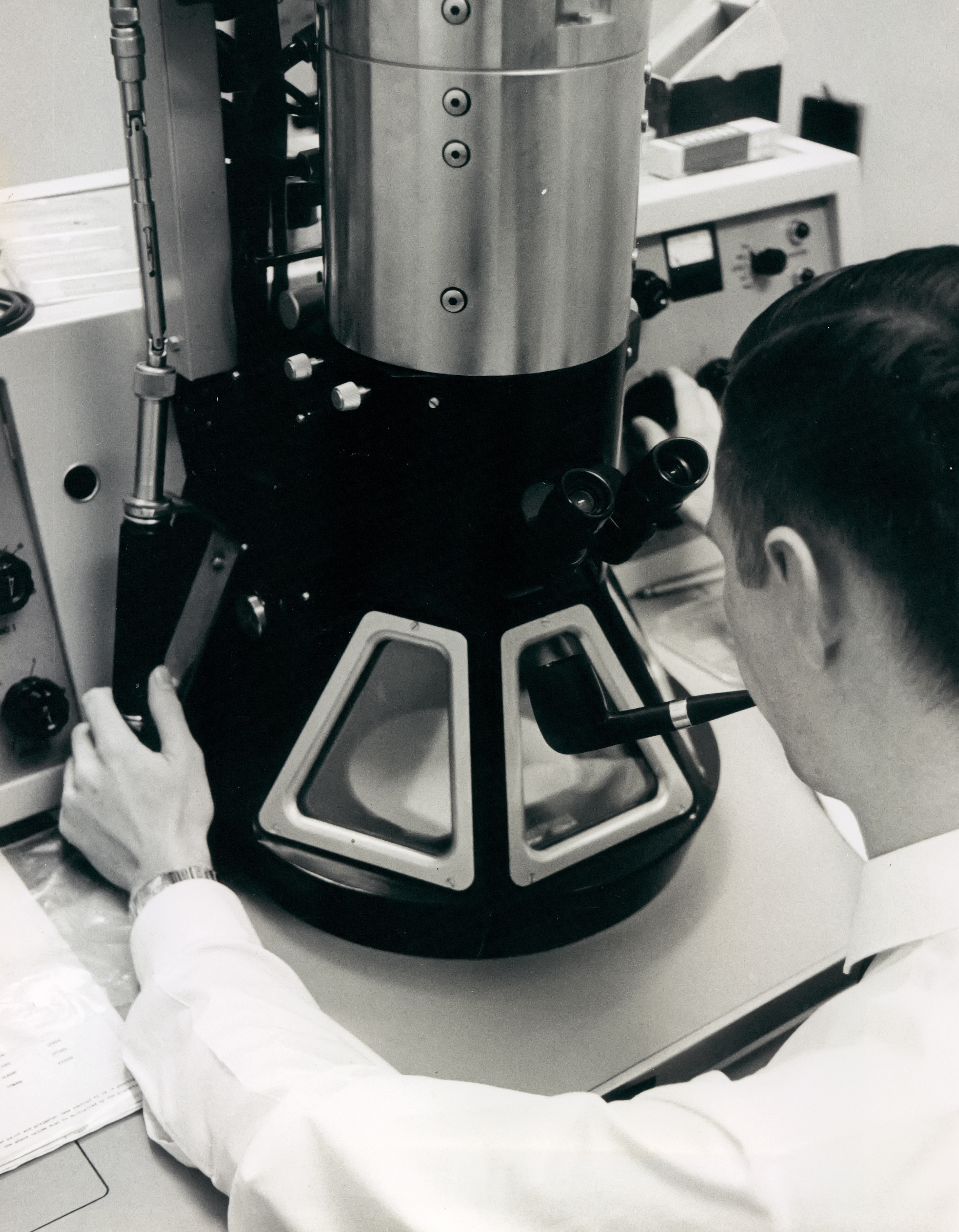 Researcher Jim Hubbard using an EM200 Electron Microscope at the Georgia Tech Research Institute.